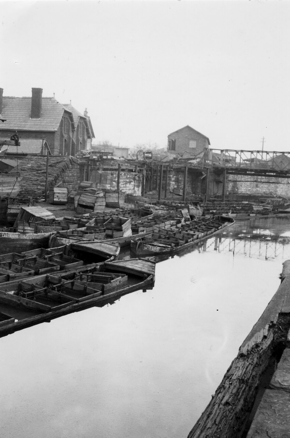 Ladyshore Colliery along the Manchester, Bolton and Bury Canal in 1951